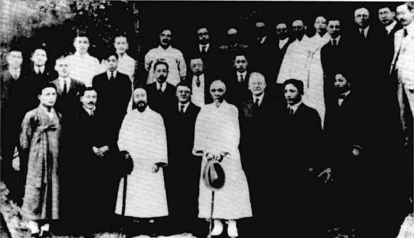 Yun Chi-ho and Lee Sang-jae and Leader of Korean YMCA